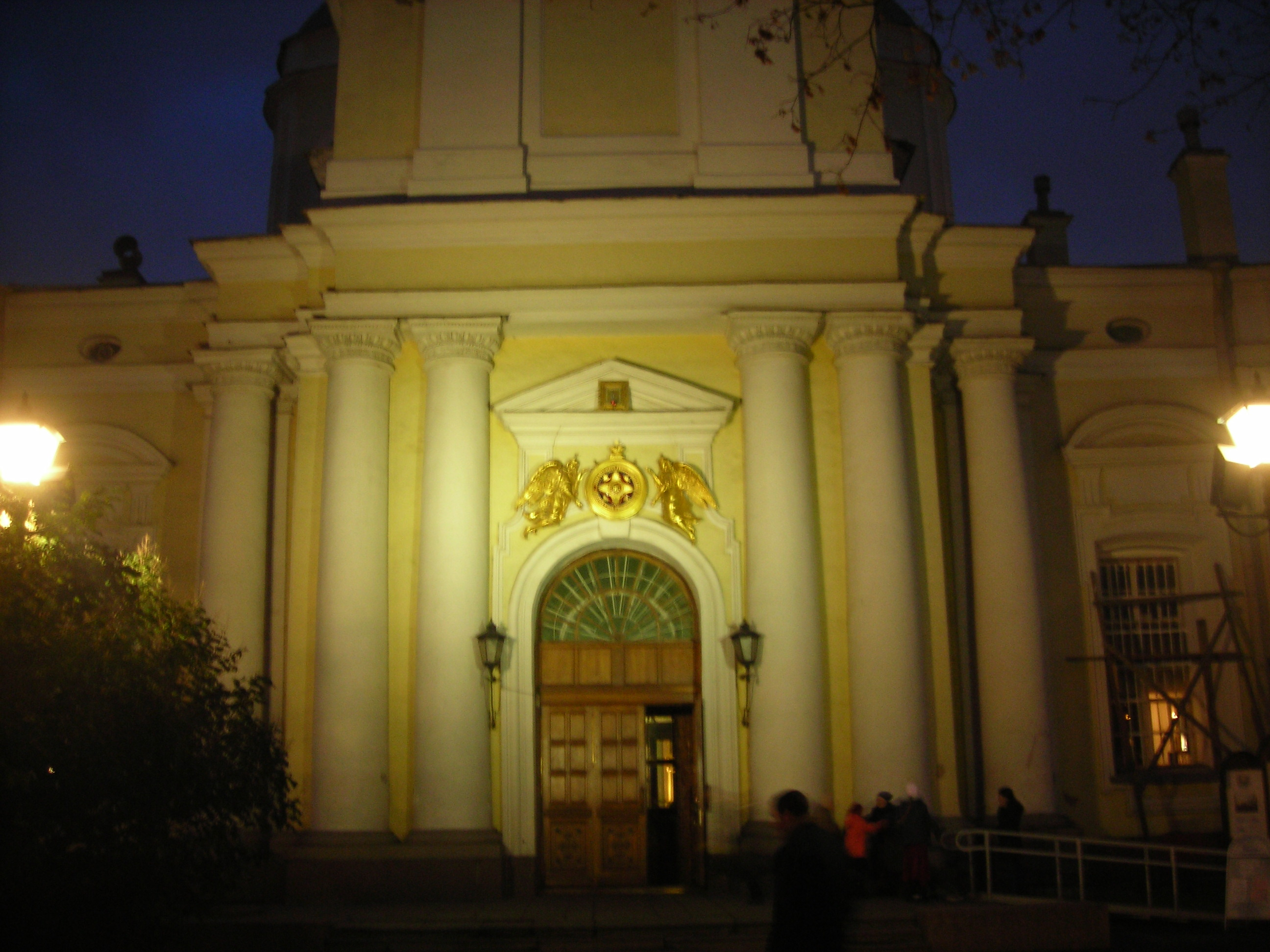 St. Vladimir's cathedral, Spb